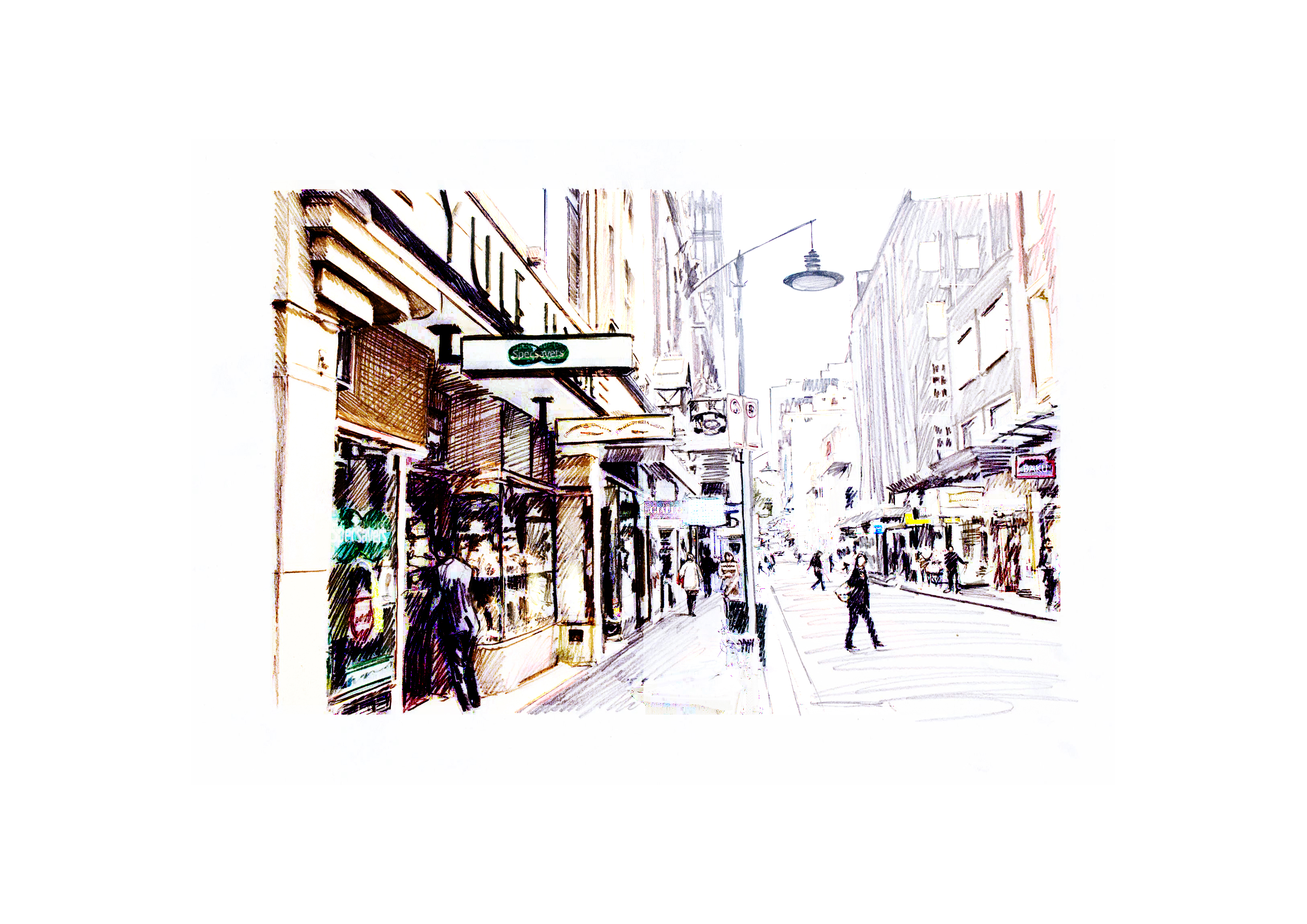 Hand drawn image of Yule House by Tamsin O'reilly of RMIT University